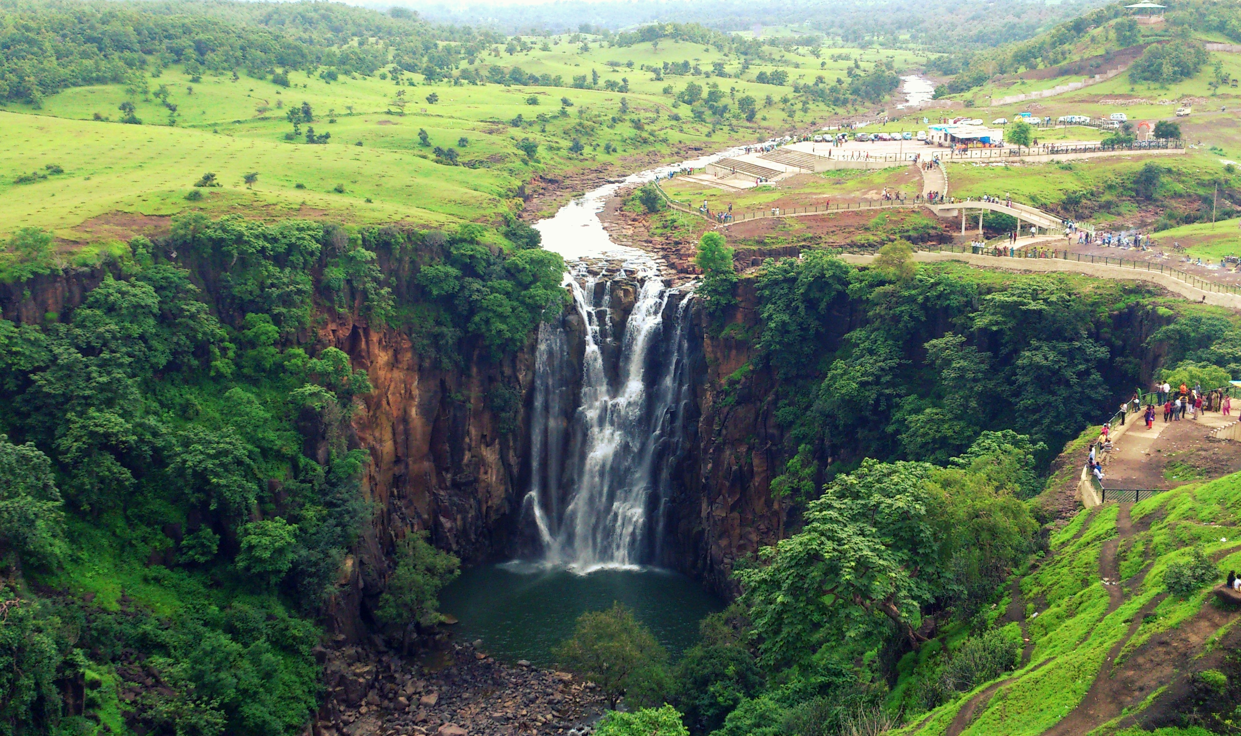 PatalPani Waterfall , a magnificent fall situated around 35 KM from Indore MadhyaPradesh